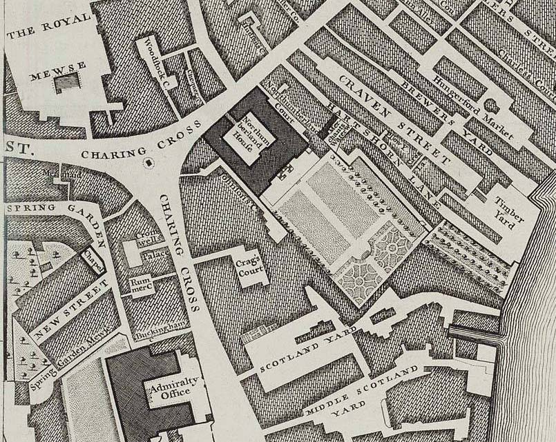 Northumberland House as shown on John Rocque's 1746 map of London.